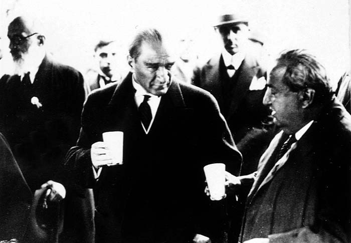 Mustafa Kemal Atatürk and Yunus Nadi Abalıoğlu drinks ayran, May 1931Türkçe: Mustafa Kemal Atatürk ile Yunus Nadi Abalıoğlu ayran içerken, Mayıs 1931